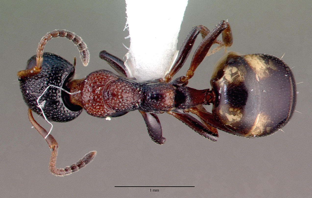 Dorsal view of ant Dolichoderus sibiricus specimen casent0008644.